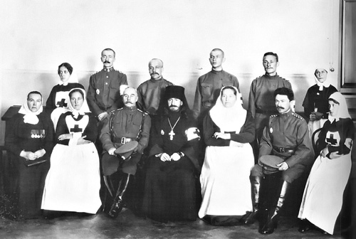 Serafimovsky Lazaret Command, Minsk 1914, the second from right in first lineː military medic Shaul Tchernichovsky.